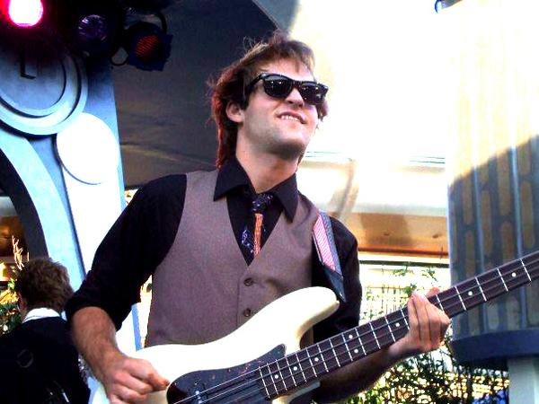 Addam Farmer of The Bolts at Tomorrowland Terrace.